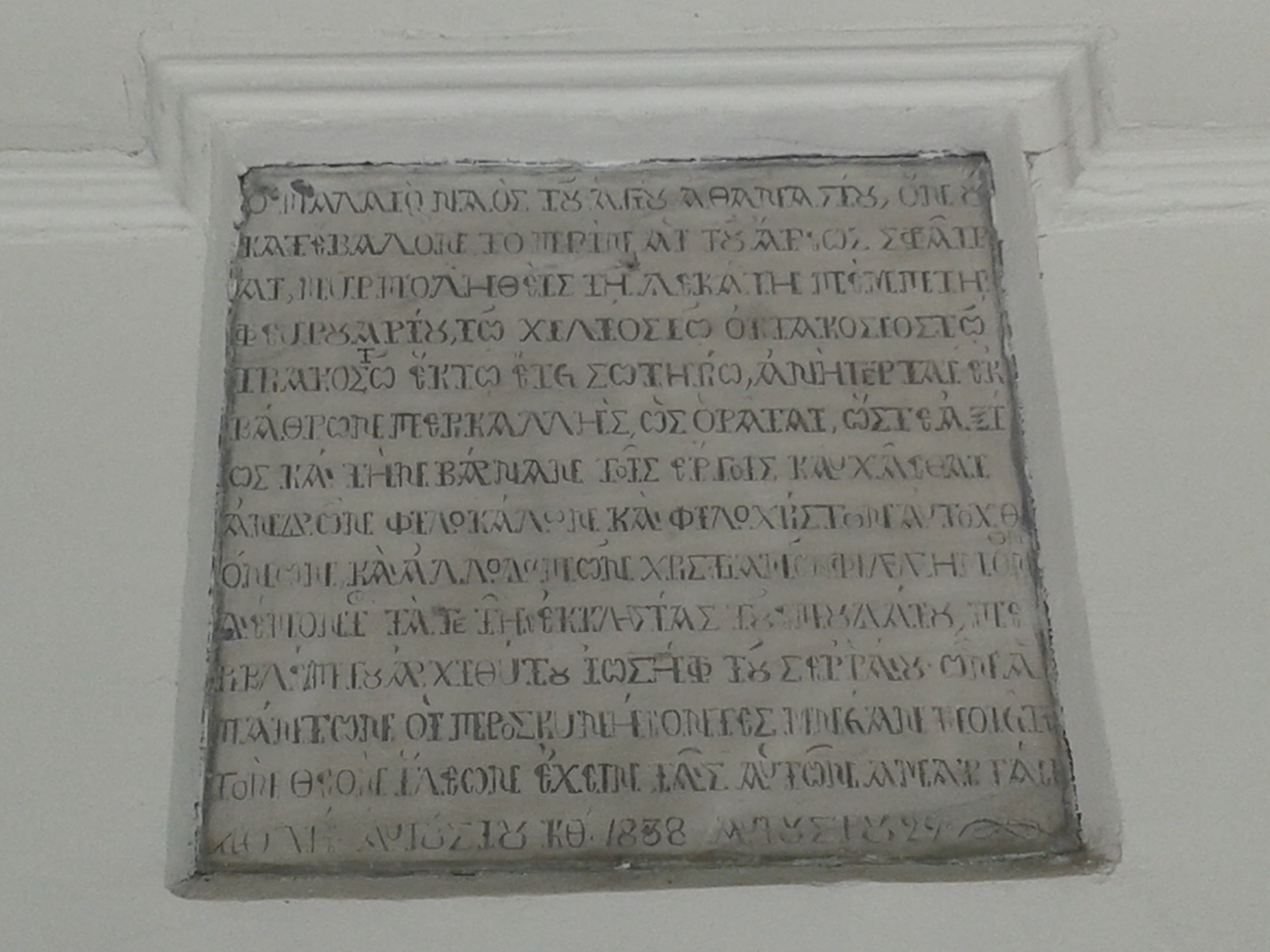 Saint Athanasius Church in Varna Inscription